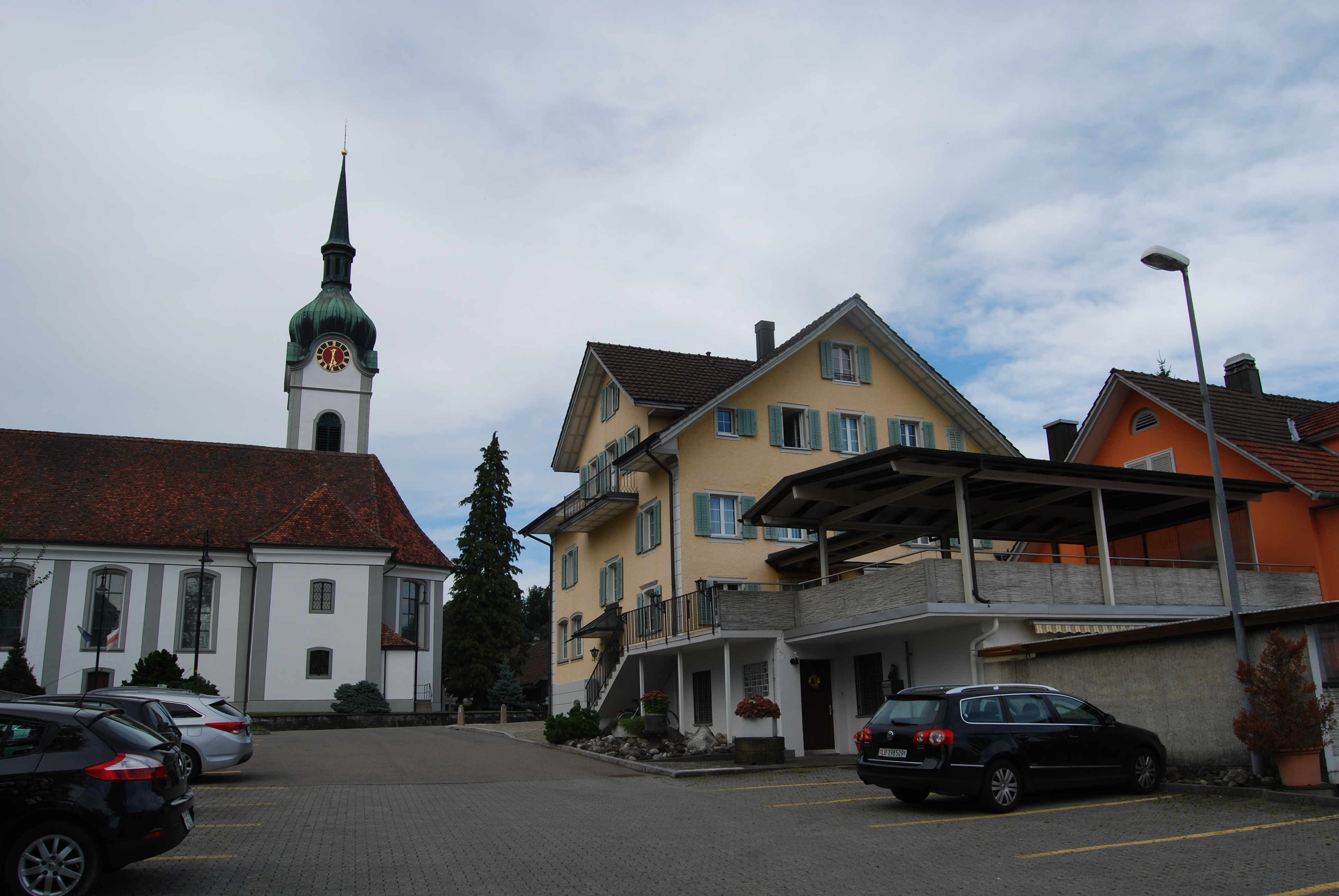 Church of Inwil, canton of Lucerne, Switzerland